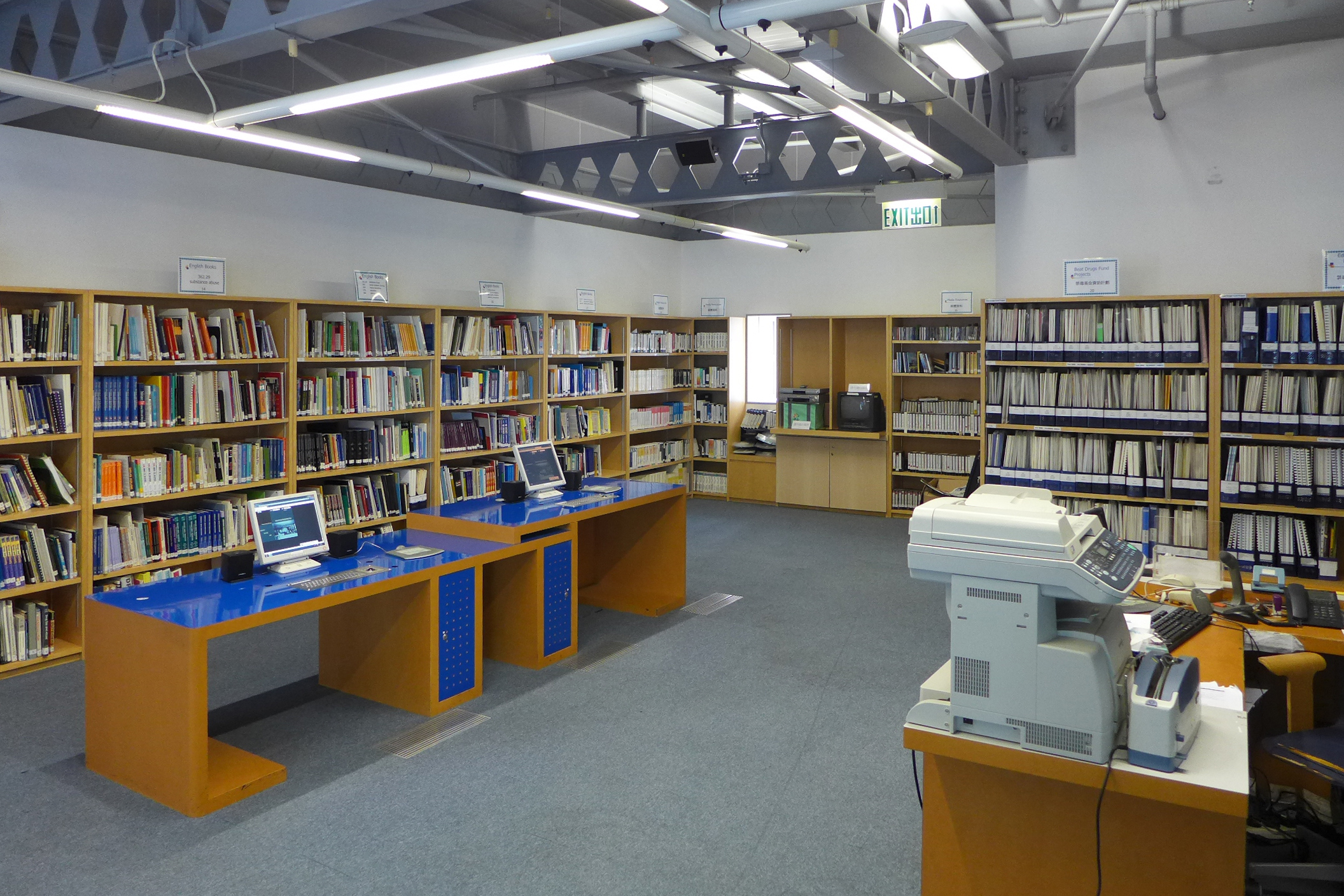 Queensway Government Offices Drag info Centre Resources Centre